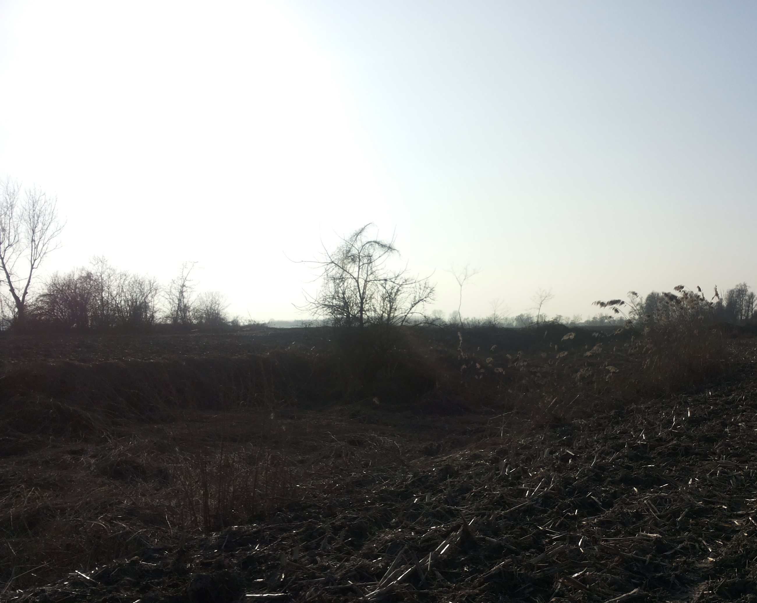 Capalla's Lake Piemontèis: Làc ed Capàla